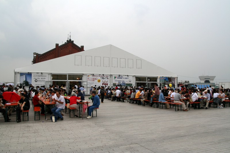 Oktoberfest in Yokohama, JAPAN. Since 2003, The City of Yokohama and local companies host Oktoberfest at Red Brick Warehouse at the post of Yokohama. They invite musicians from Germany and serve Erdinger Weißbräu's Dunkel and Kirin's "Wiesn" Beer.